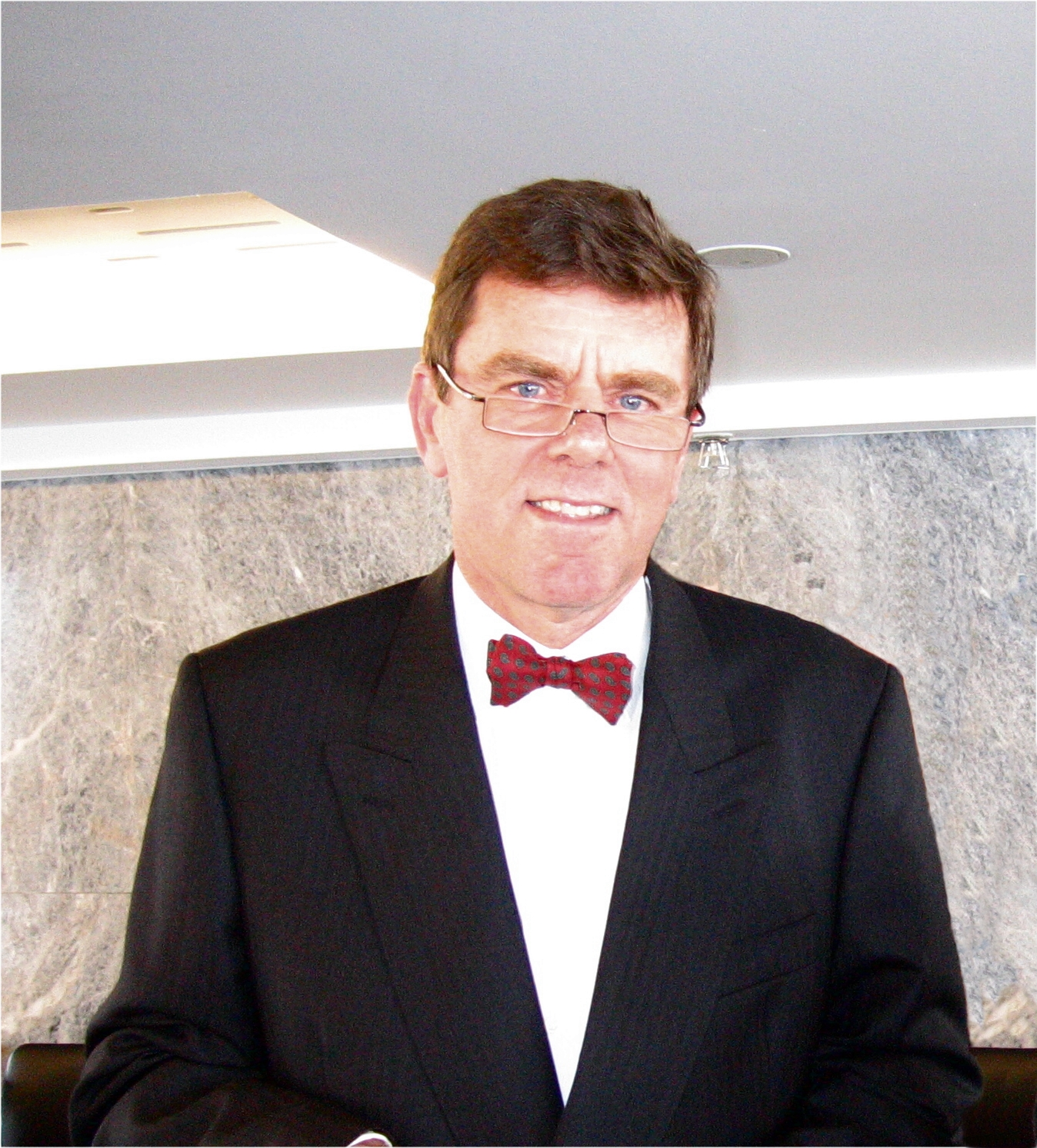 A photo of Derek Leask. New Zealand High Commissioner in London in 2008. This photo has been cropped from a larger photo and the background has been cleaned up.